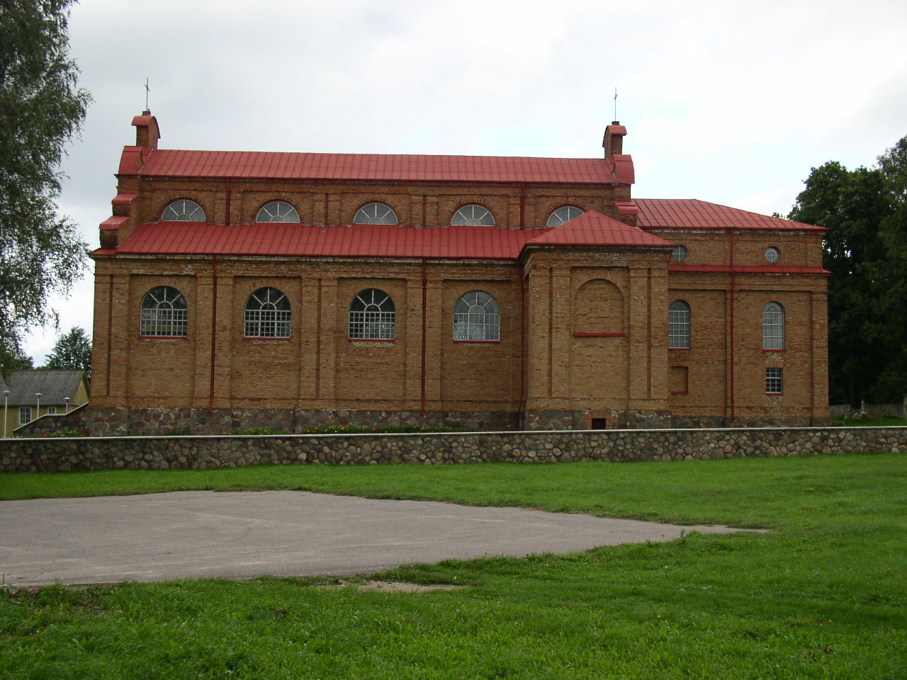 Church of Assumption of the Holy Virgin. Naliboki, Belarus.